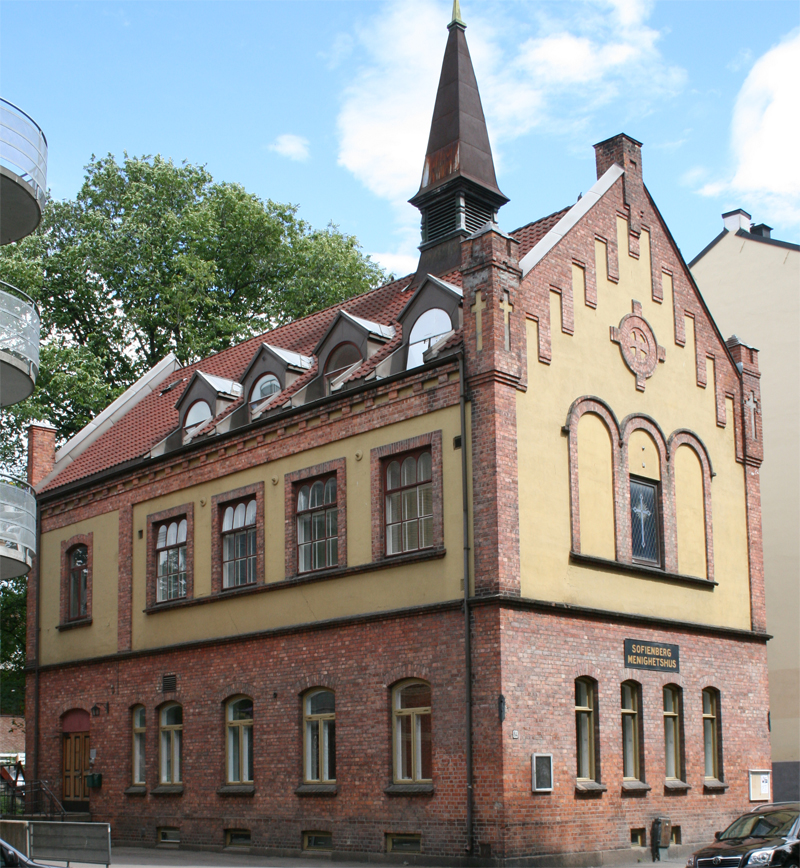 Helgesens gate (street) no 64 in Oslo. Former orphanage, now offices and assembly room for Sofienberg congregation. Built 1907. Architect Halfdan Berle.